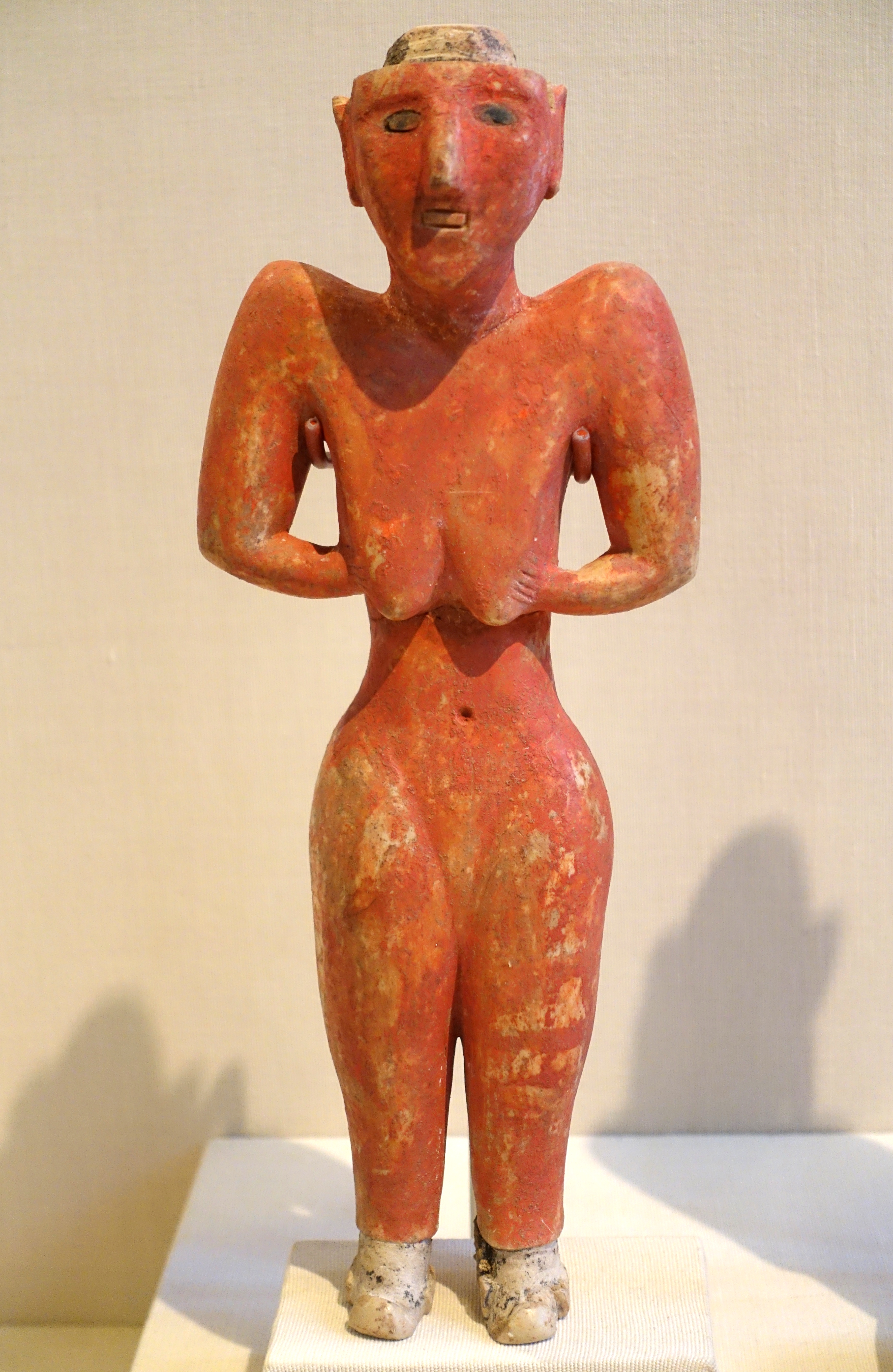 Exhibit in the Oriental Institute Museum, University of Chicago, Chicago, Illinois, USA. This work is old enough so that it is in the public domain.